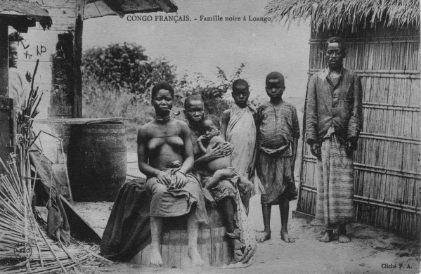 Rural family of the Kouilou, posing in front of the traditional huts in papyrus panels. The man (head of family?) a little indented to the right, dressed in a traditional skirt and a jacket of more European appearance.